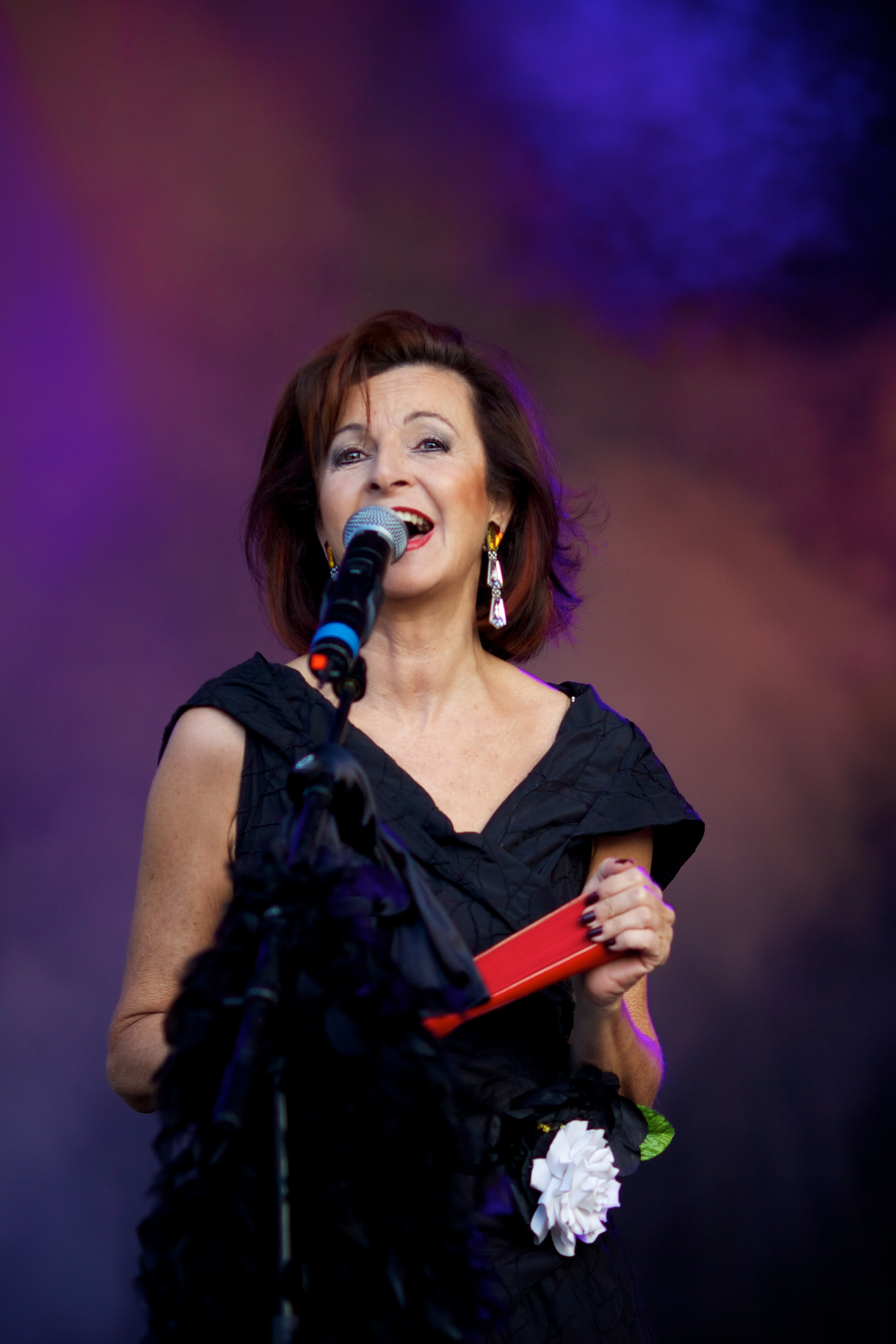 Baccara live in Norway, 2010